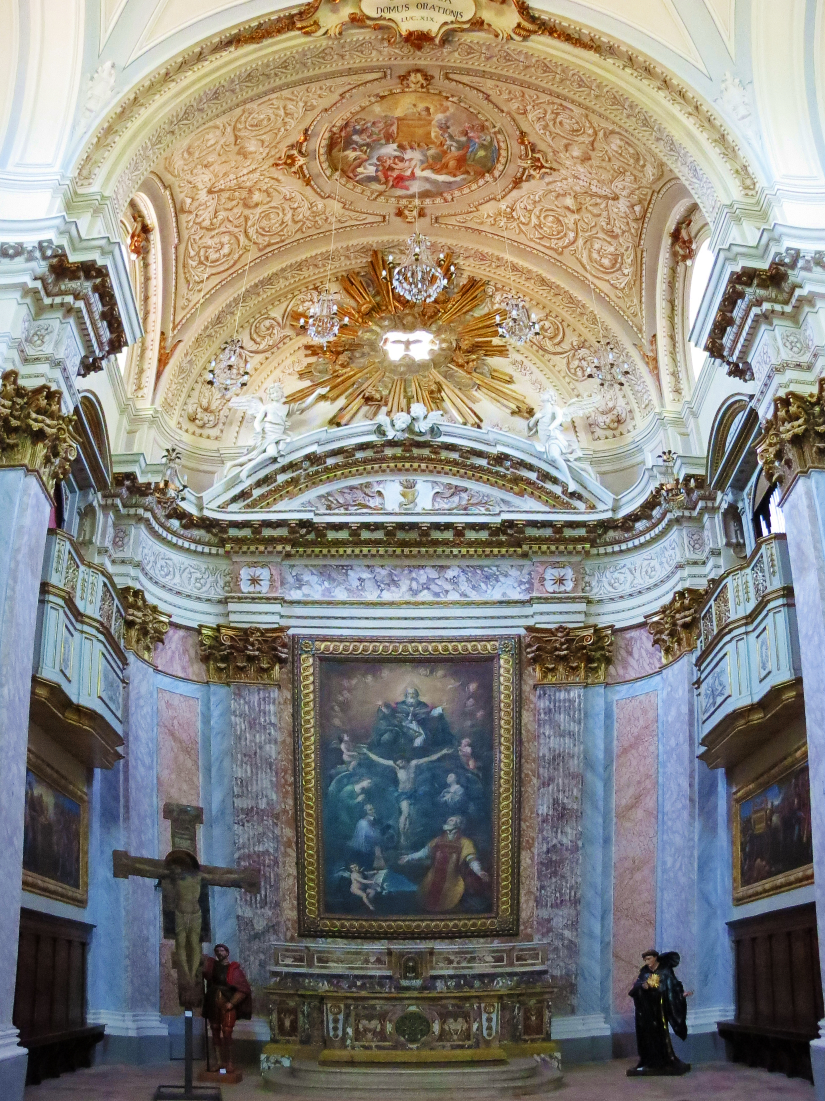 Eighteenth-century church of the late Baroque Marches. Among the most prestigious of the Marches